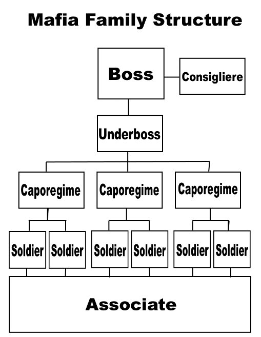 Mafia crime family structure tree